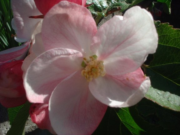 Ellisons Orange apple bloom, British Colombia, Canada